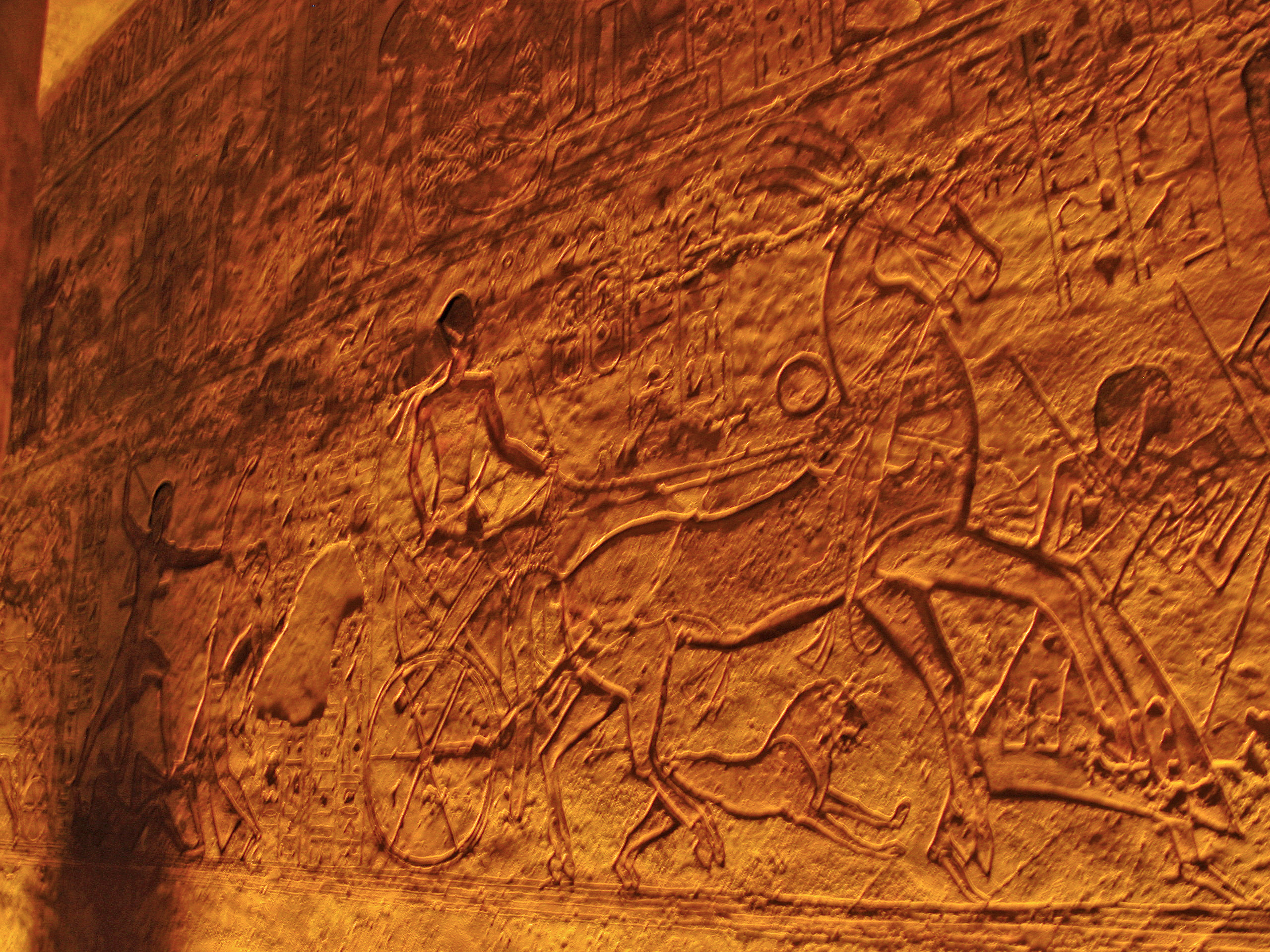 On the walls of the first hall are scenes showing the king’s victories over his enemies, usually Libyans and Nubians. The north wall is painted with scenes from the battle of Kadesh, his greatest victory.